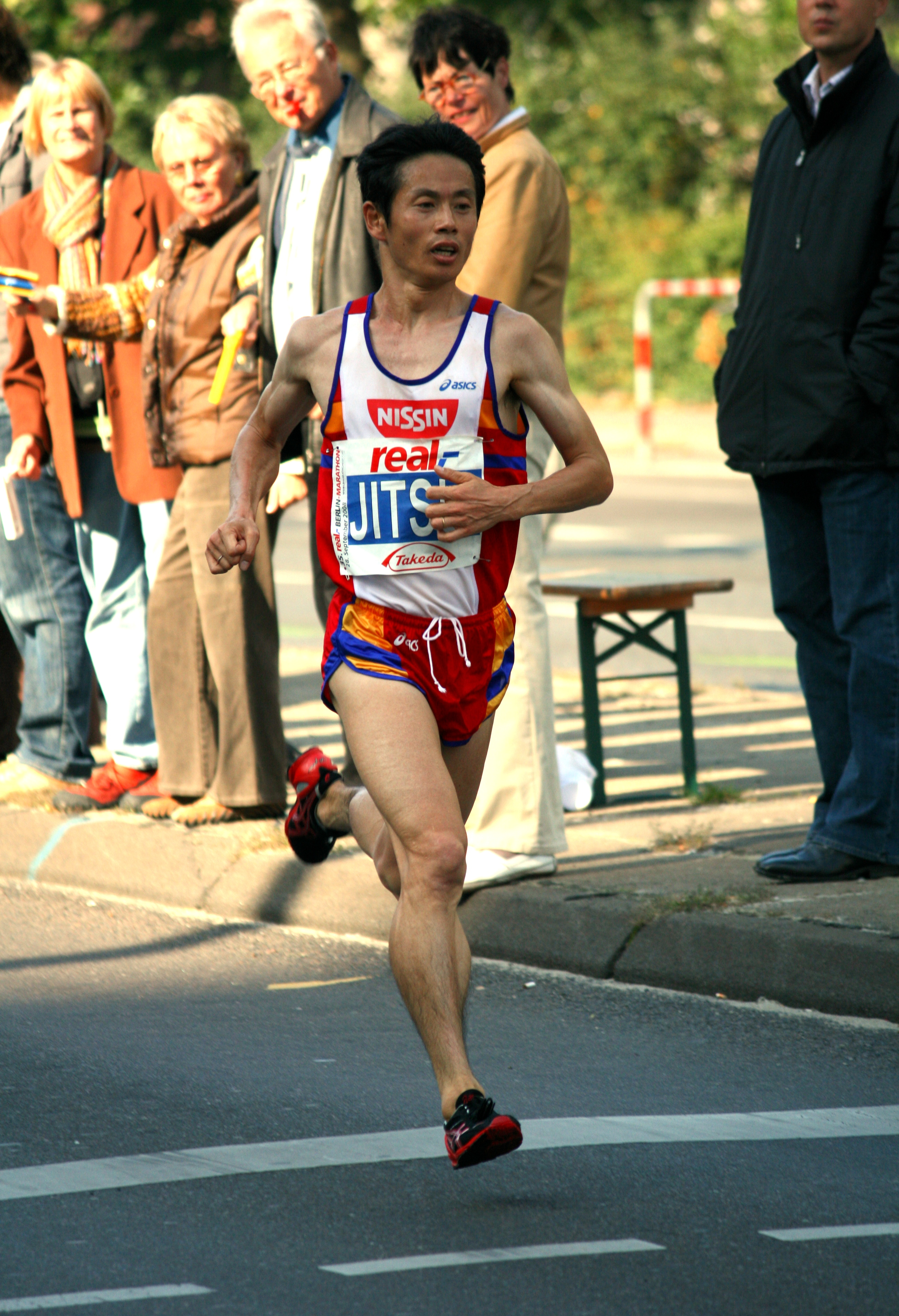 Kenjiro Jitsui, Japanese long-distance runner, at the Berlin-Marathon 2008